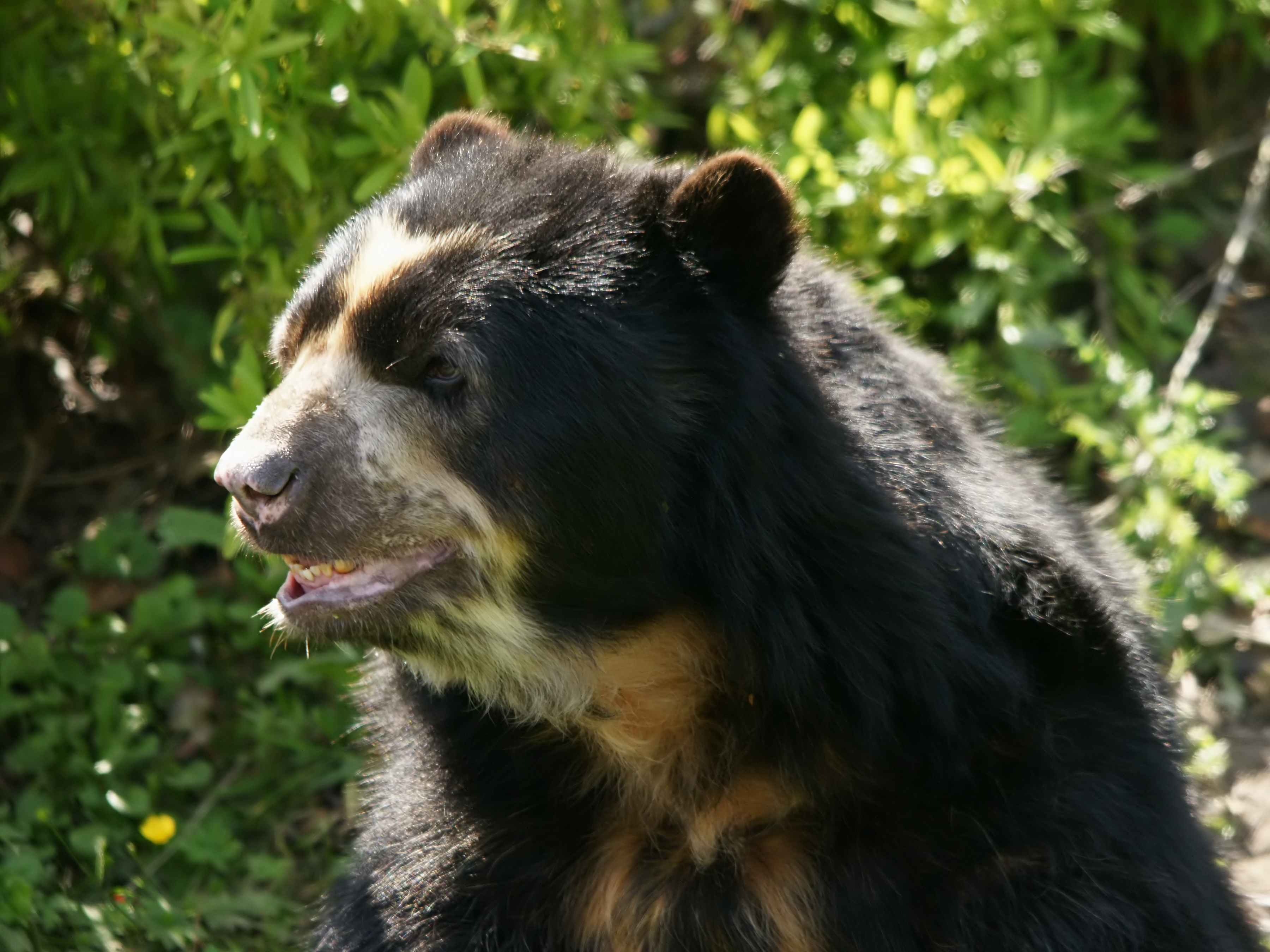 Spectacled Bear at Chester Zoo near Chester, UK.